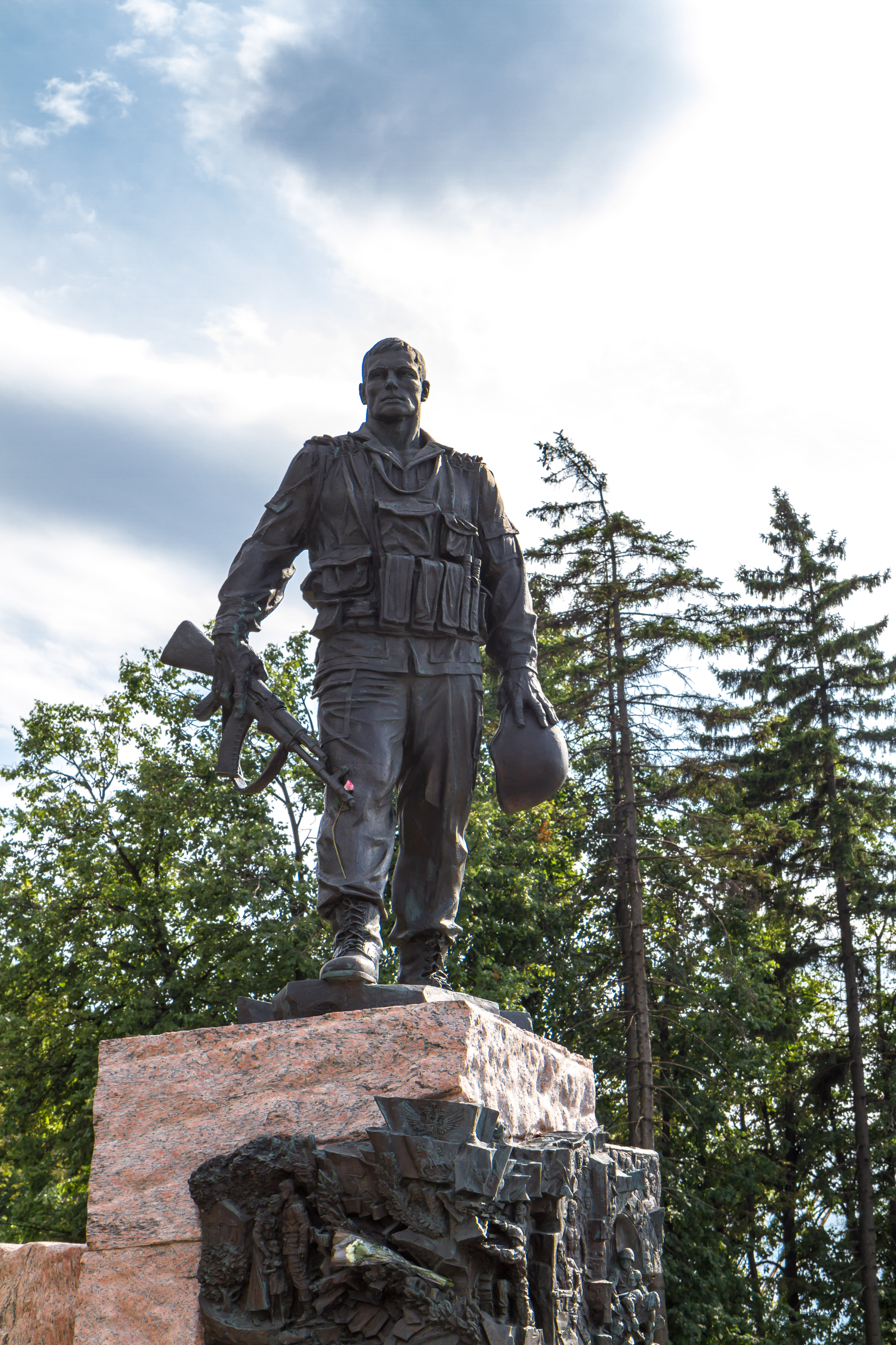 Dorogomilovo District, Moscow, Russia